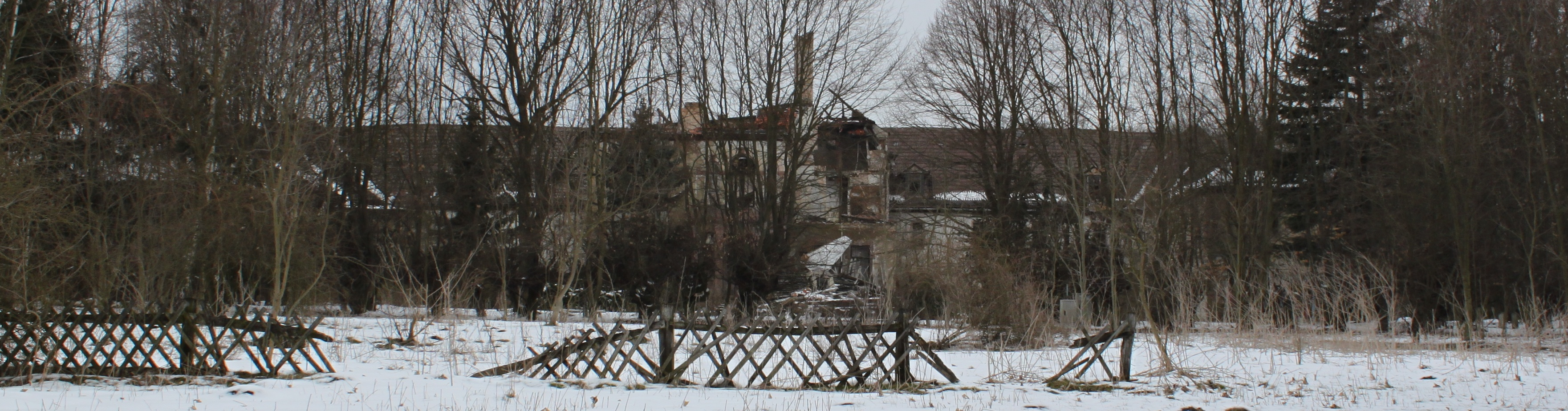 Rathsfeld Palace